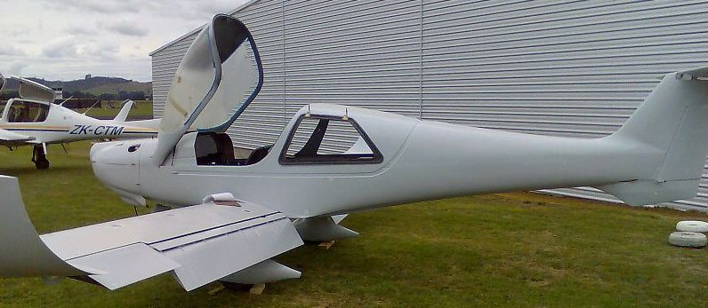 A DynAero '4s' aircraft kitset partly assembled. Photo taken Feb 2009 at Ardmore Airport, Auckland, New Zealand.